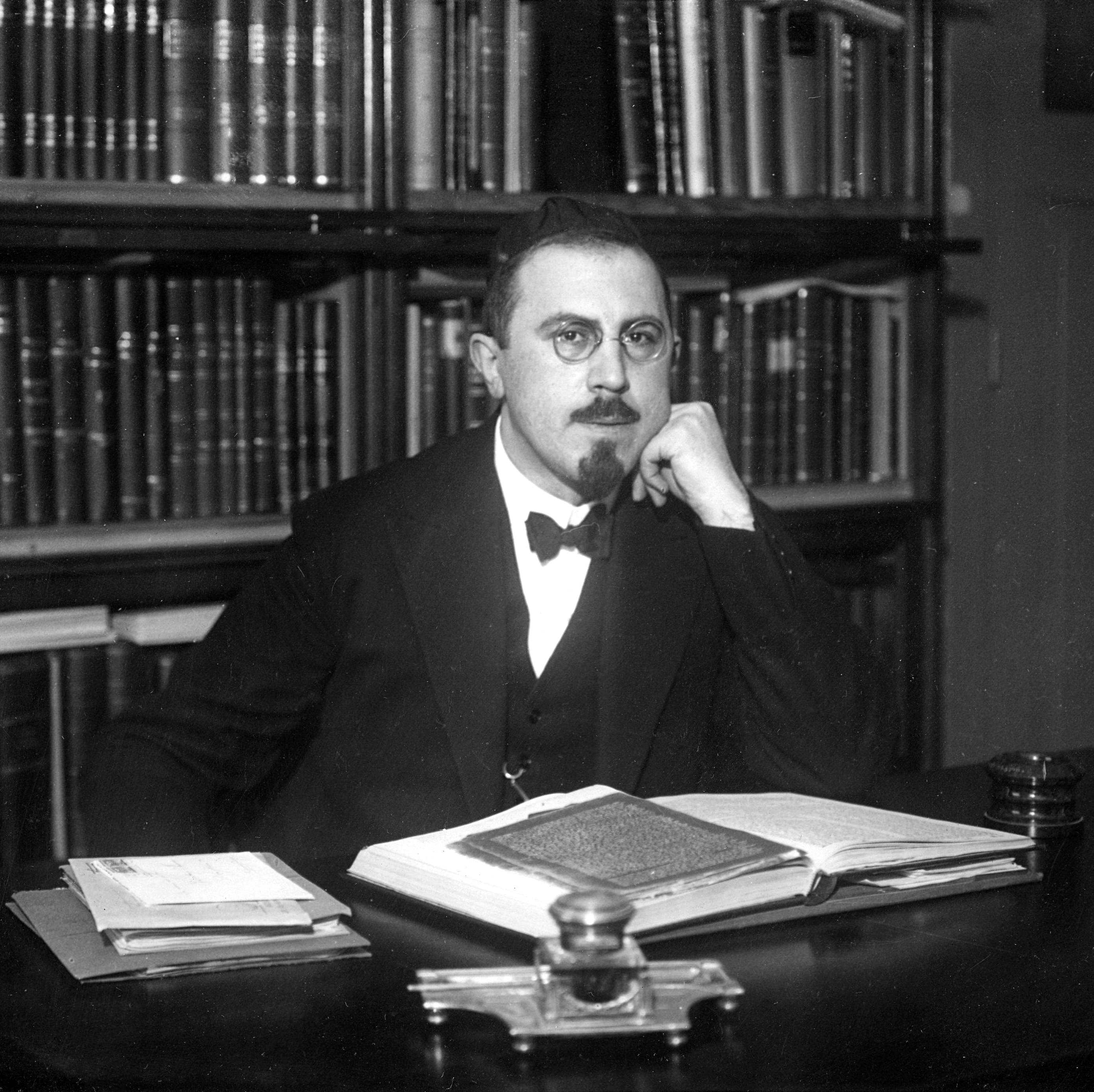 Isaac (Izak) Maarsen (Amsterdam, February 27, 1892 - Sobibór, July 23, 1943) was the Chief Rabbi of The Hague, from 1925 until his death.